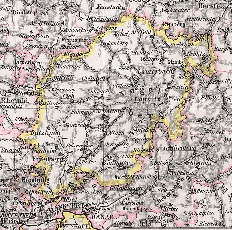 Detail from a map of Hesse.